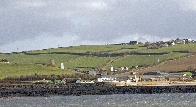 Royal Marines' Base, Instow This view from across the Taw estuary shows the lit day-marks above the base and to the right of the church tower at Instow Barton.